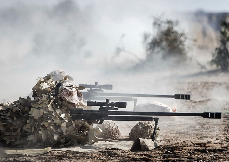 Velayat 94 Military exercise that hold in February 2016 in the range of Strait of Hormuz and northern Indian Ocean